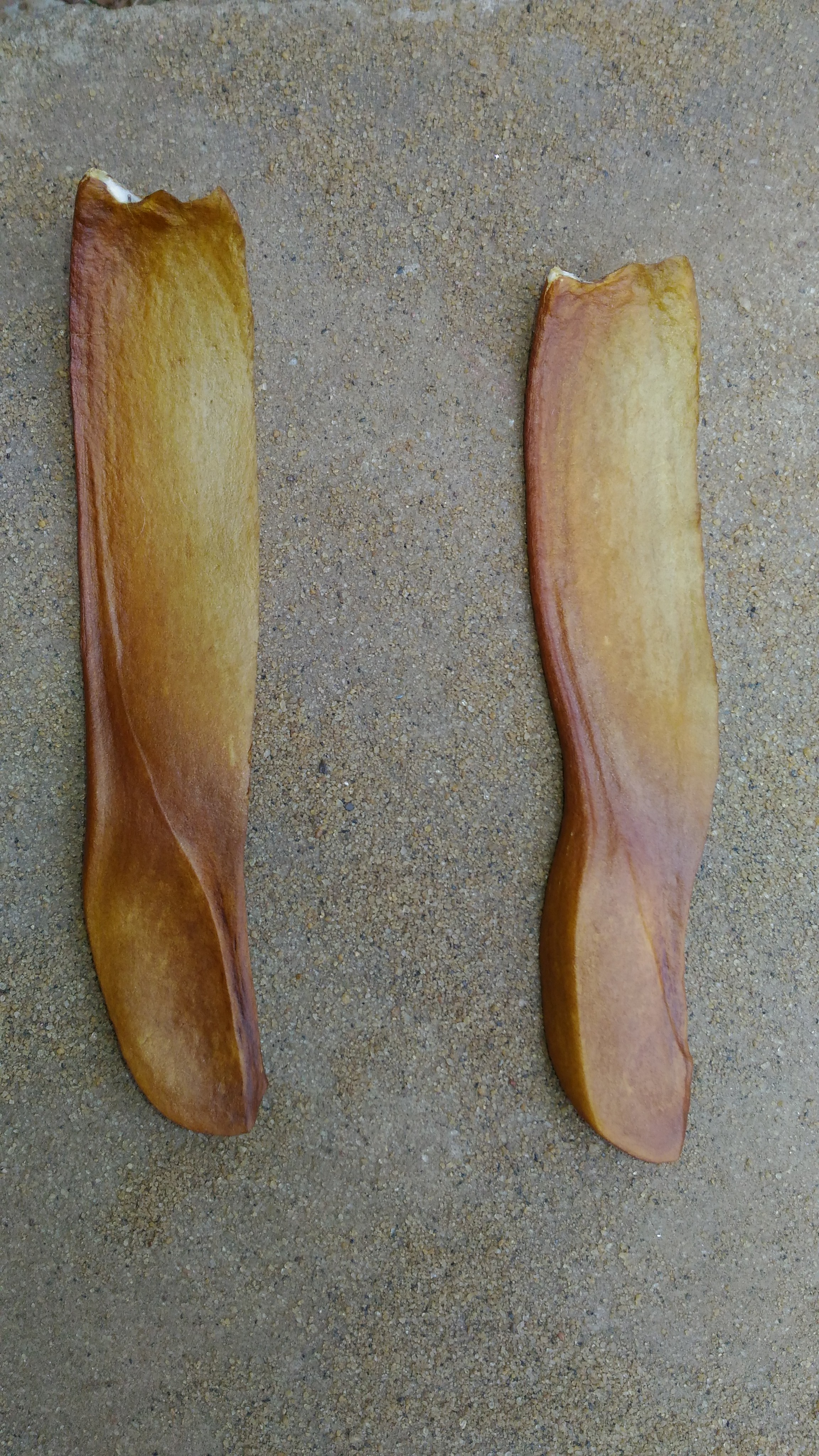 Seeds of Mahagony_ with wings to disperse in wind